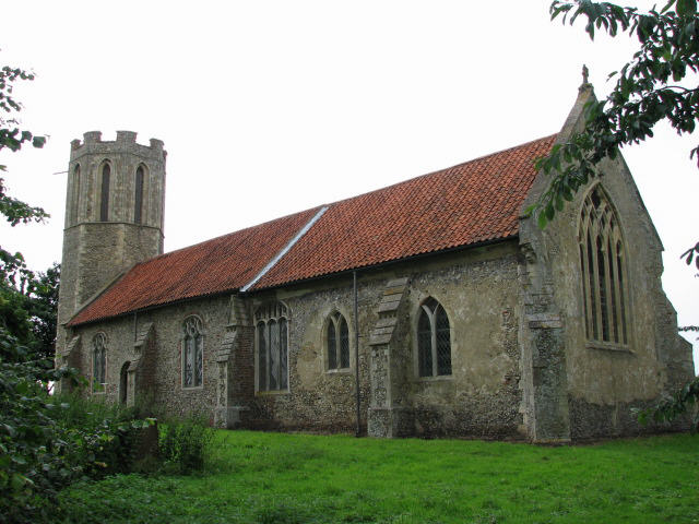 St Nicholas' parish church, Buckenham, Norfolk, seen from the southeast